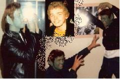 A composite image of members of the Degenerates. All but the drummer are emulating Pan.